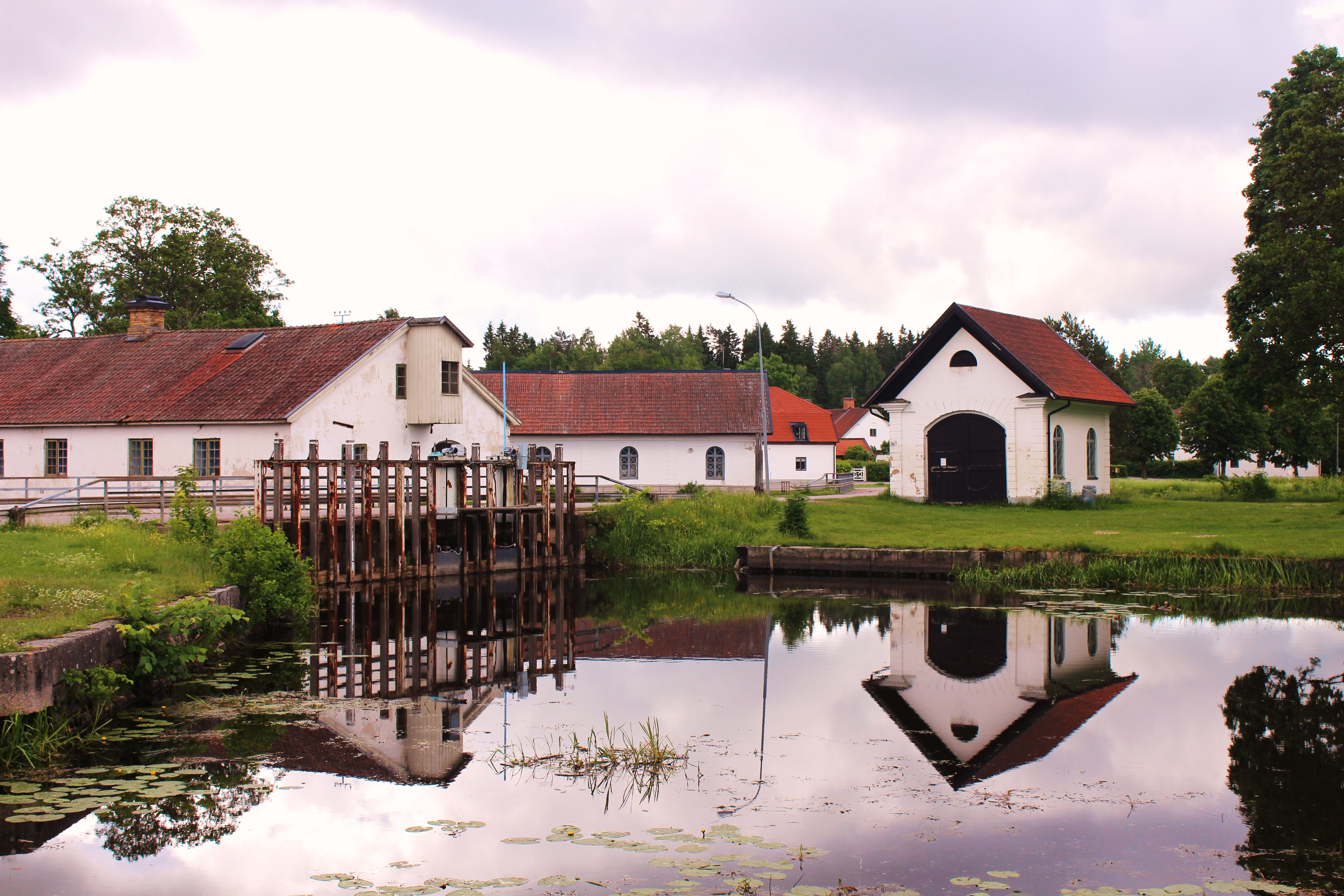 At the Strömsbergs bruk, Tierp Municipality, Sweden.